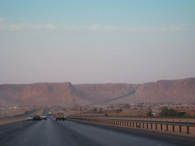 Muzahmiyah is located at 50km from riyadh